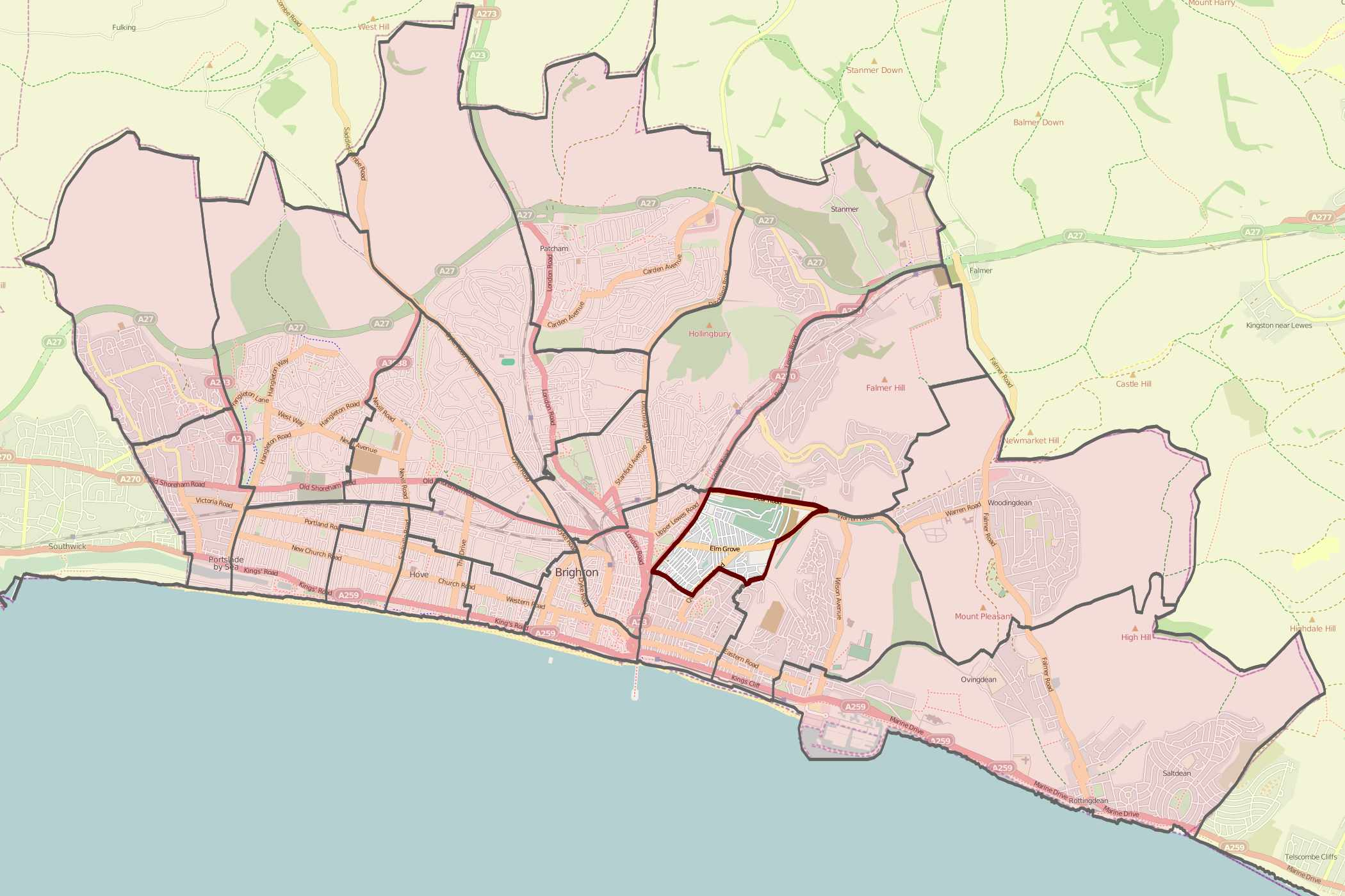 Map of Brighton and Hove wards with one ward highlighted